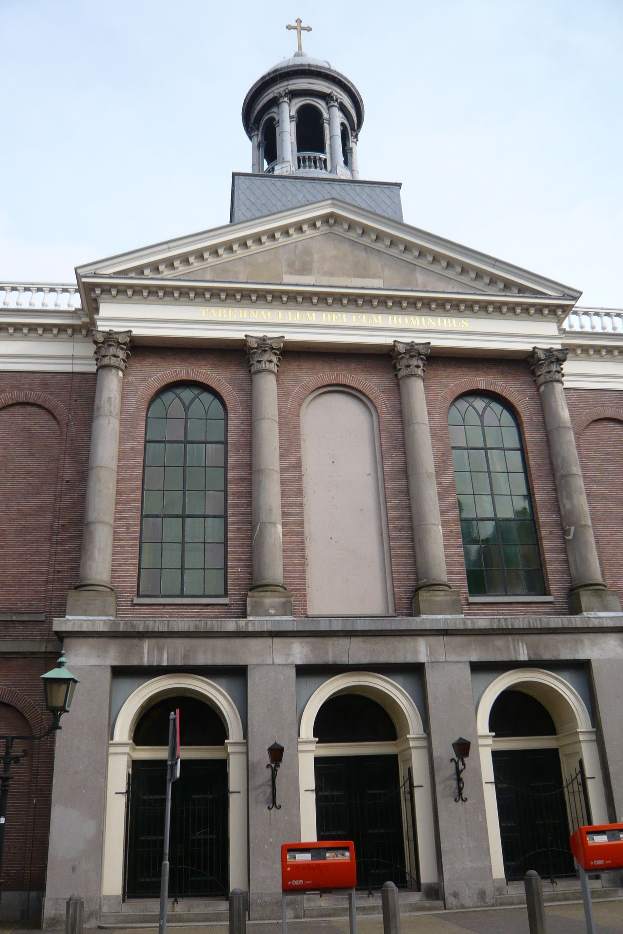 Front of St. Josephkerk on the Jansstraat in Haarlem, the Netherlands. Built 1841-1843, this church is an example of a Waterstaatskerk, a church built in the fashion of a waterboard building. It was the successor to the St. Josephstatie on the Goudsmitplein, dating from 1669.